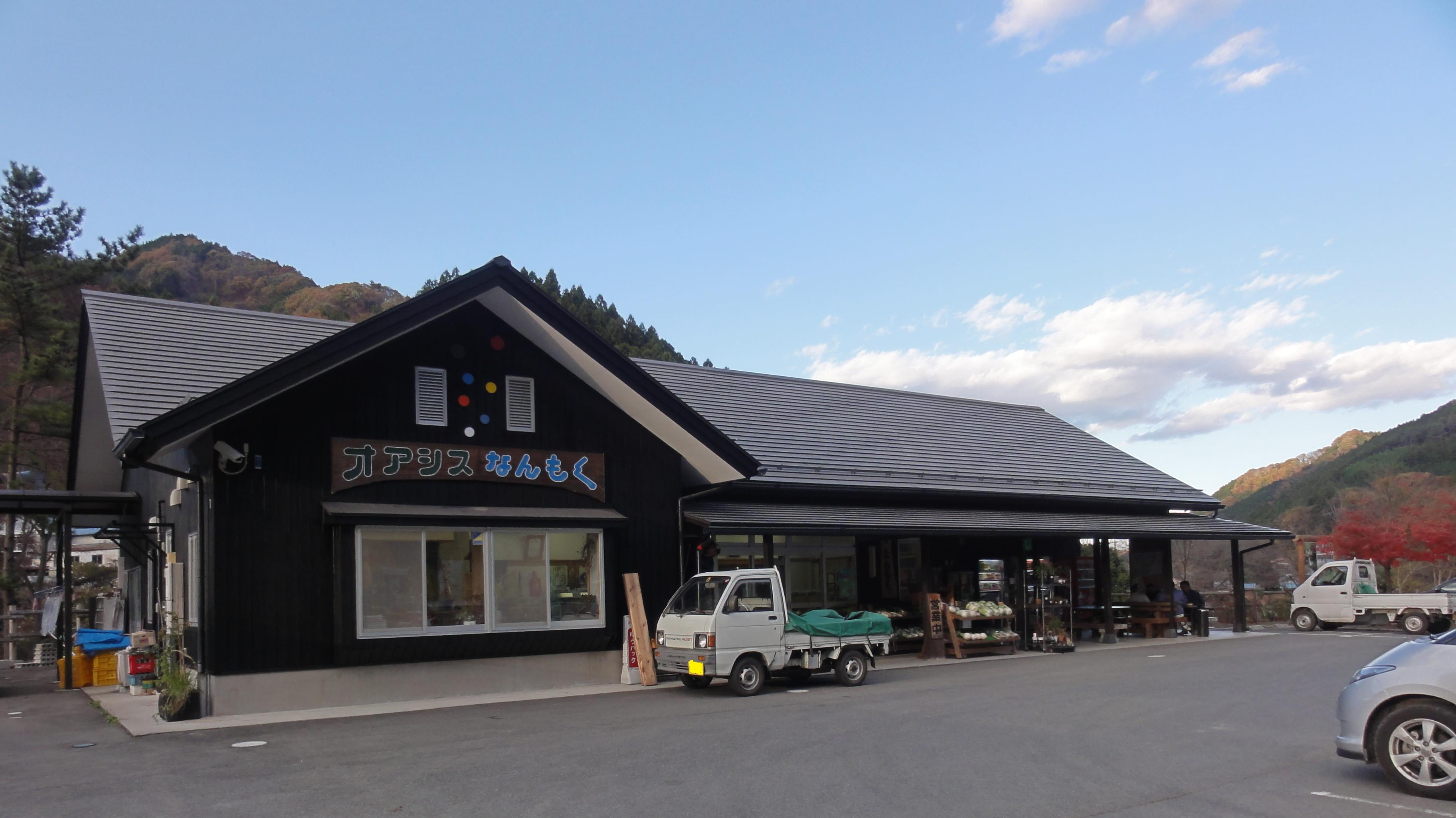 Road to station Oasis Nanmoku,Gunma prefecture,Japan